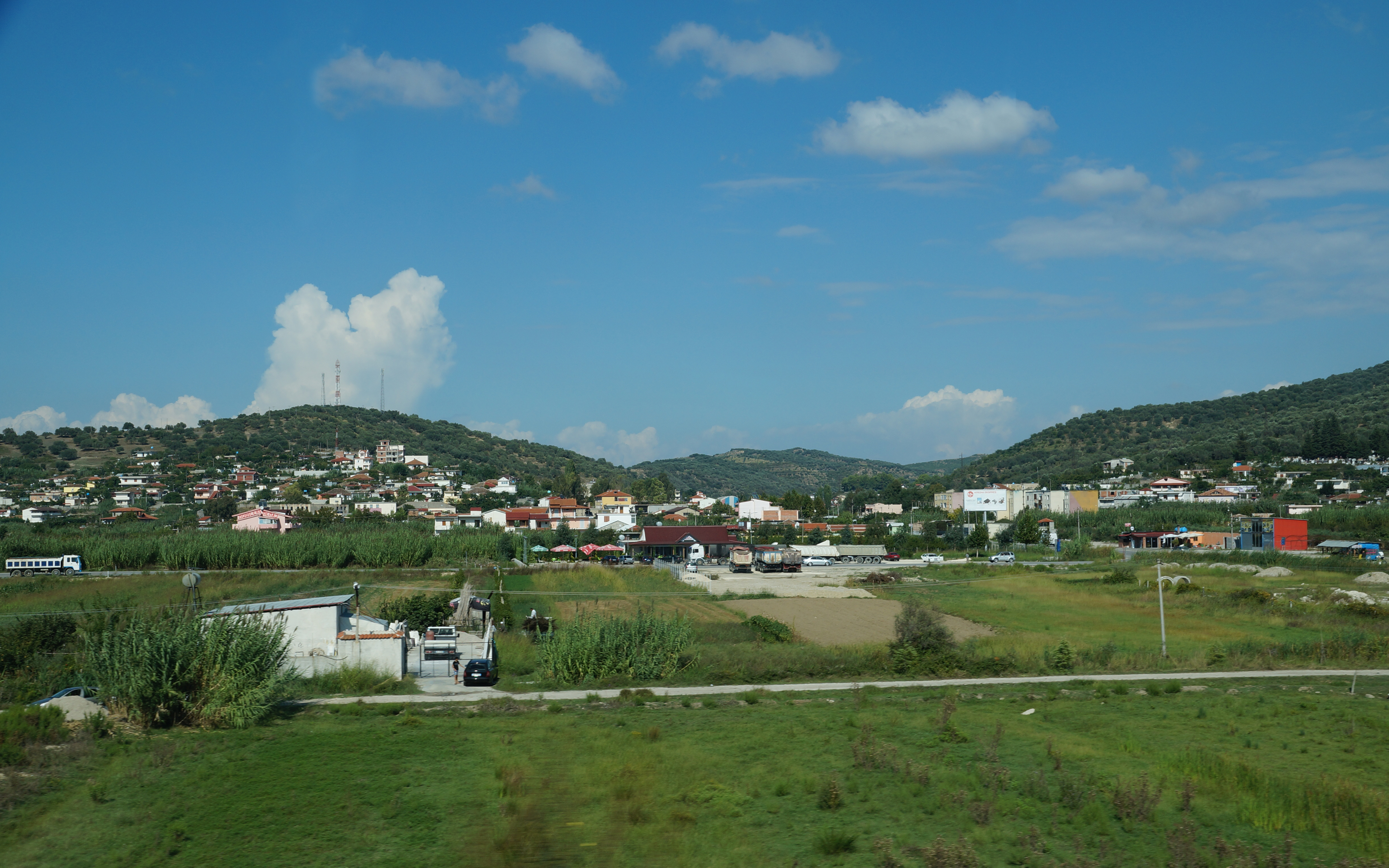 Levan, Albania, from Southwest